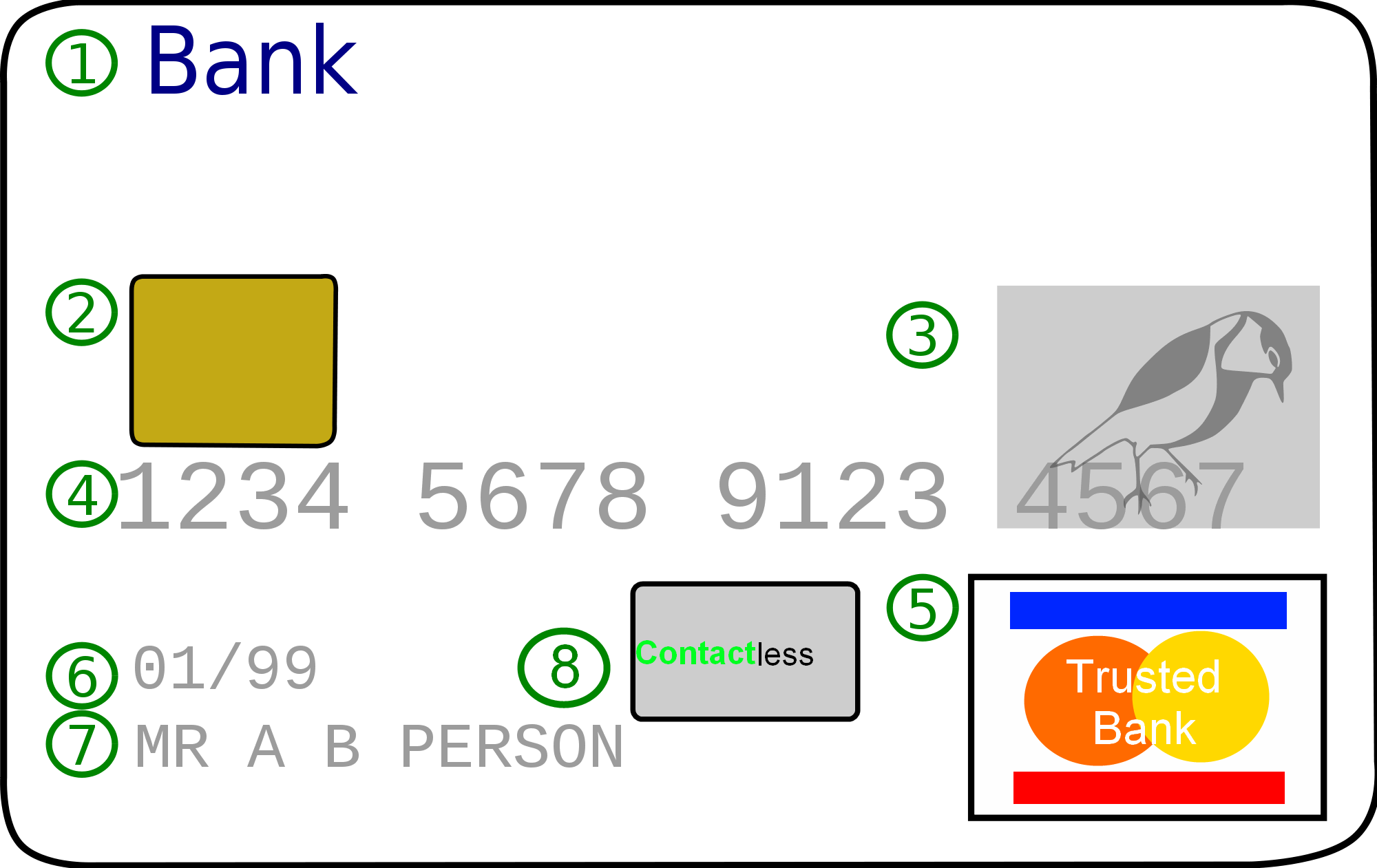 Version of an image of a credit card